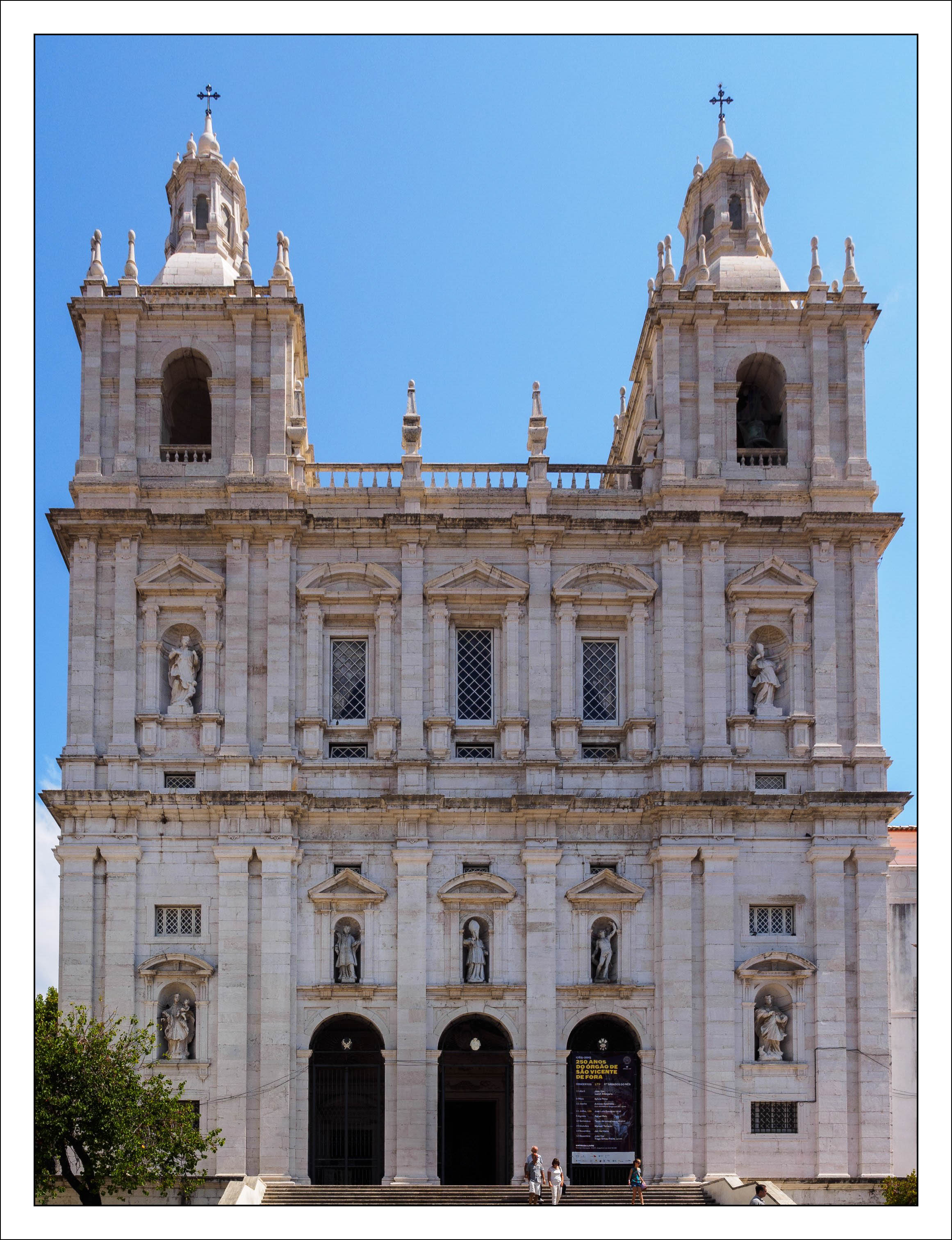 Andreas Manessinger, , Creative Commons BY-SA